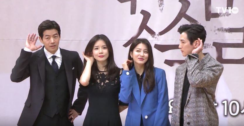 Cast of TV series Whisper (귓속말)